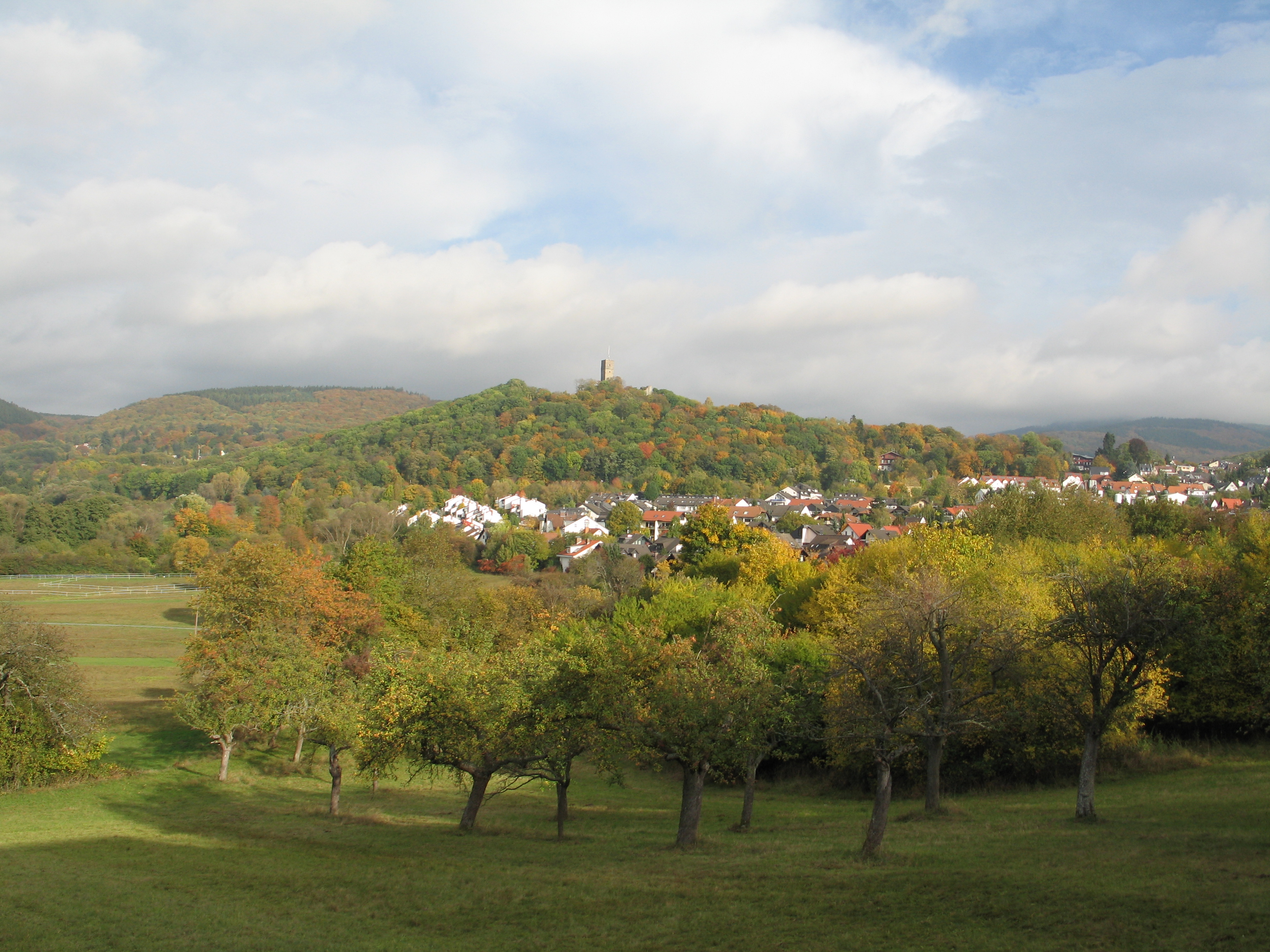 Panorama view of the Calstel's ruins (Burg) of Koenigstein im Taunus. Picture taken from Wiedbadener strasse. Wonderful autumn colors.